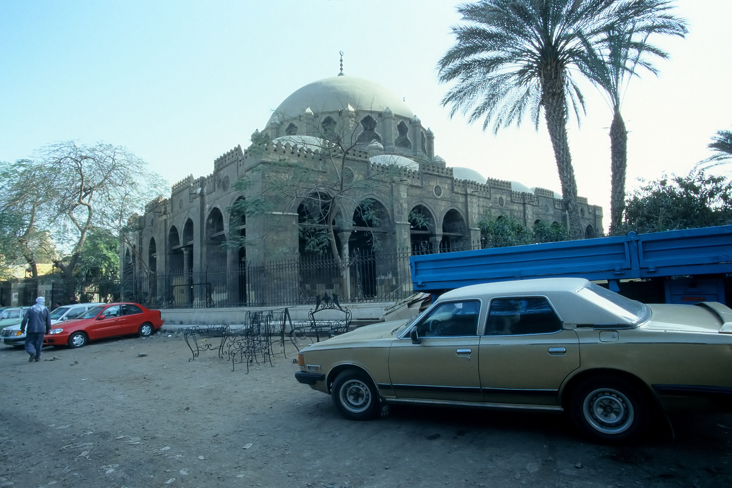 Mosque of Sinan Pasha